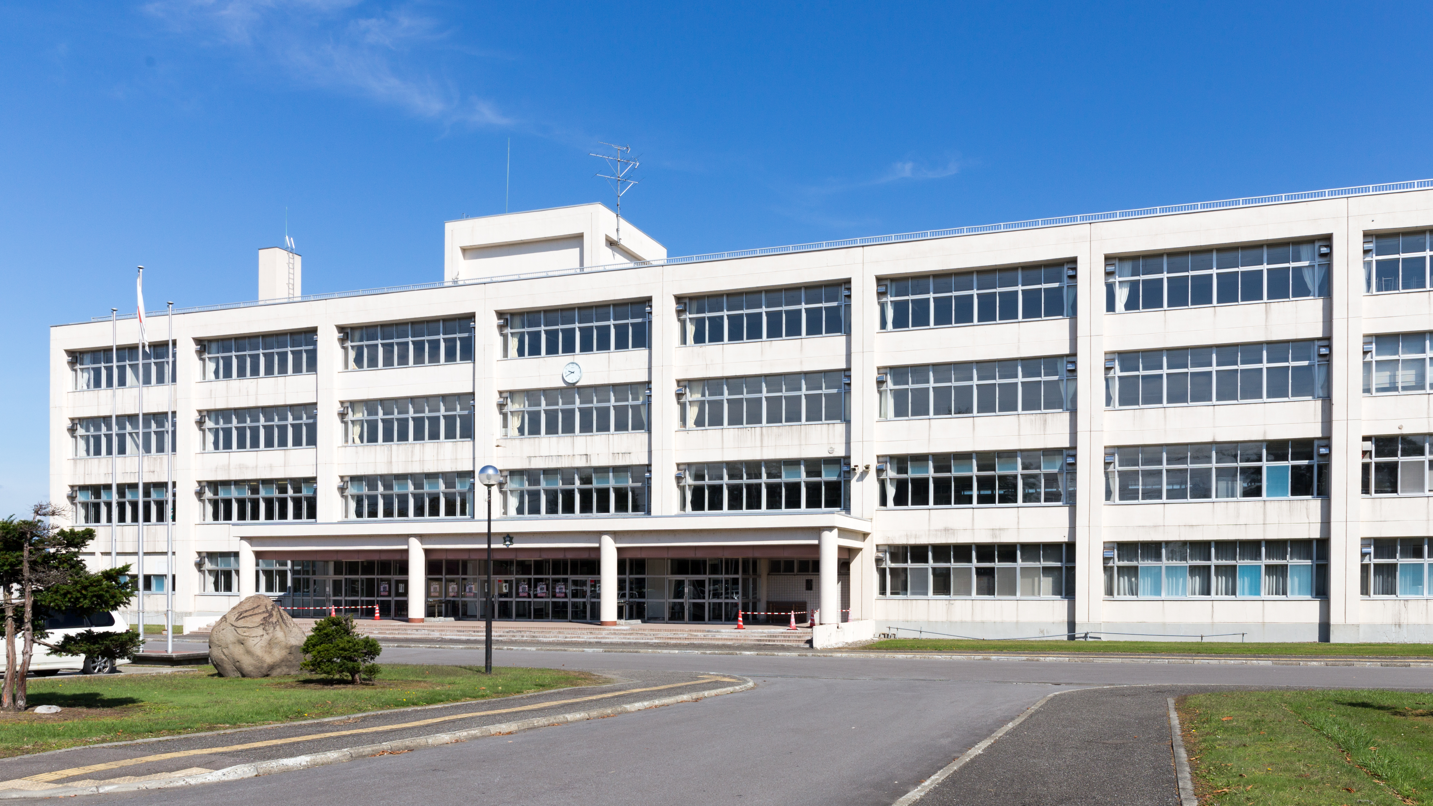 Hokkaido Sunagawa High School in Sunagawa City, Hokkaido, Japan